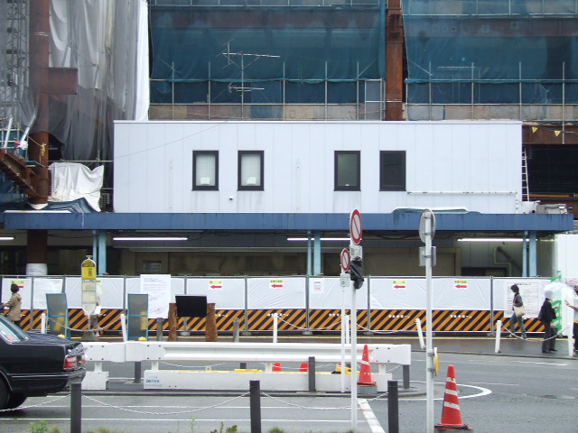 Old building of Takahatafudo station, KTR KEIO LINE, Keio Electric Railwey, Japan